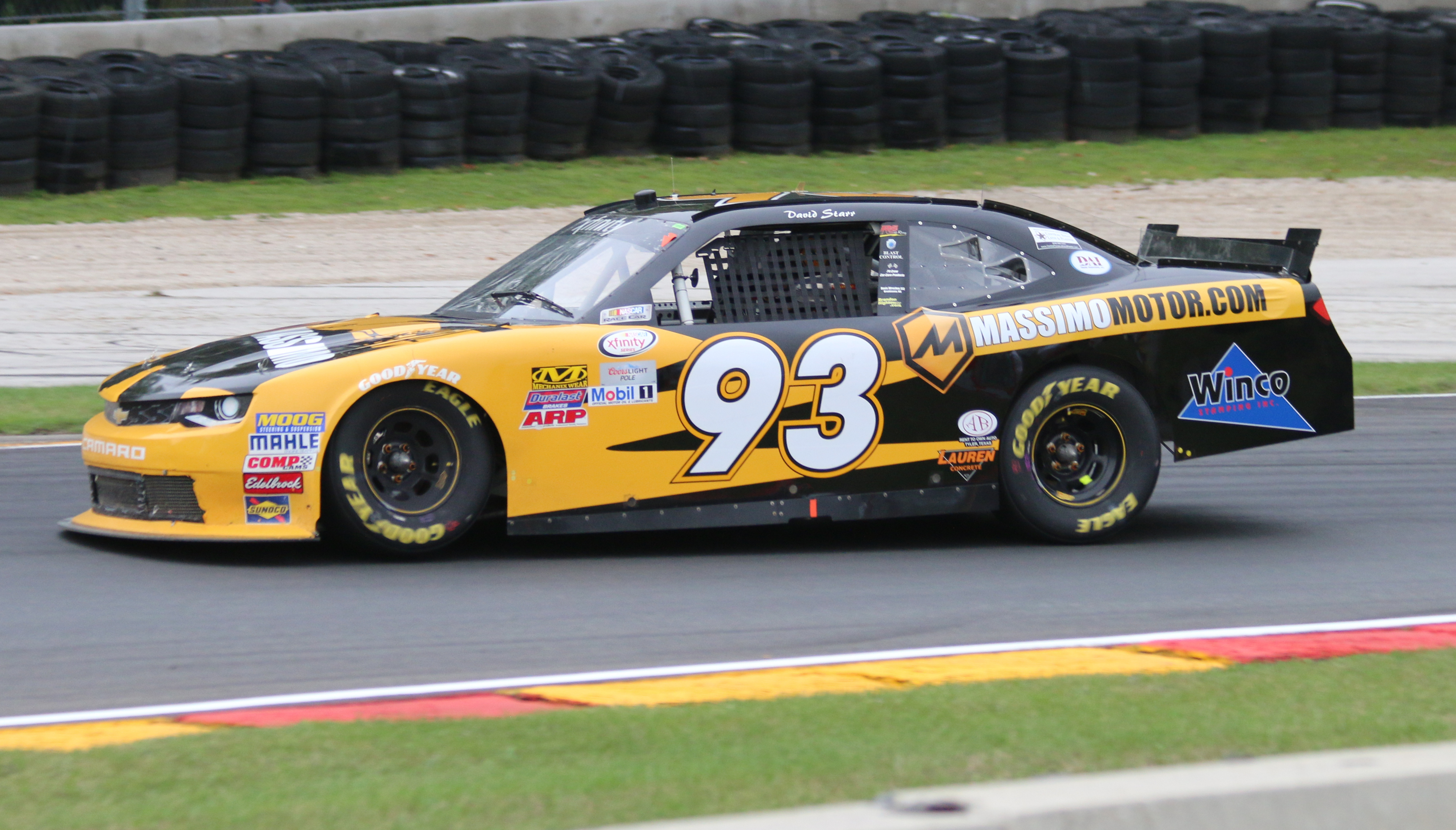 The Chevrolet Camaro of David Starr at the NASCAR Xfinity Series Road America 180.